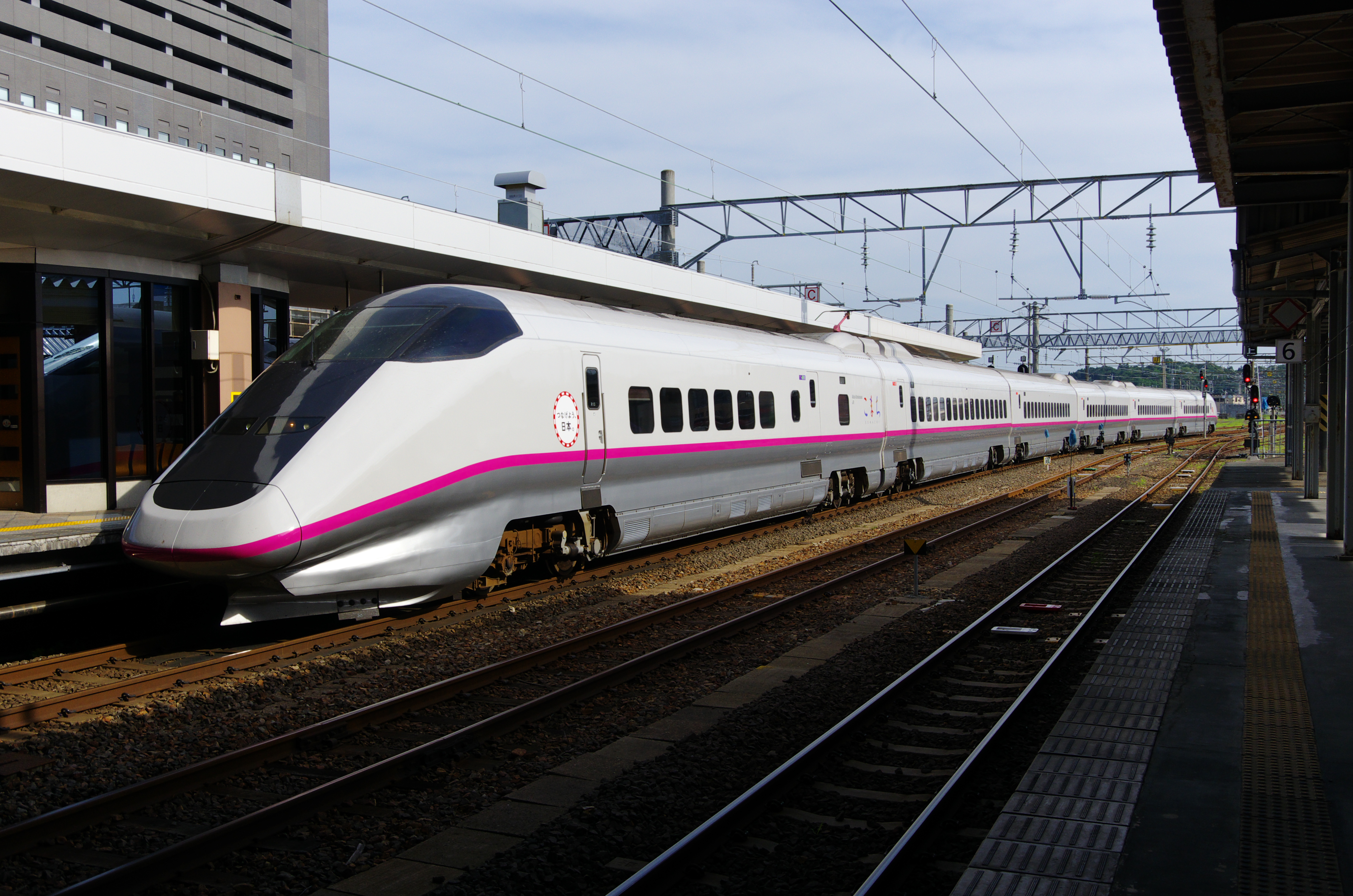 JR East E3 series shinkansen set R13 on a Komachi service at Akita Station